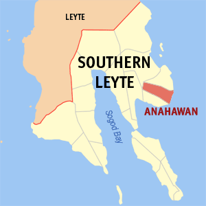 Map of Southern Leyte showing the location of Anahawan